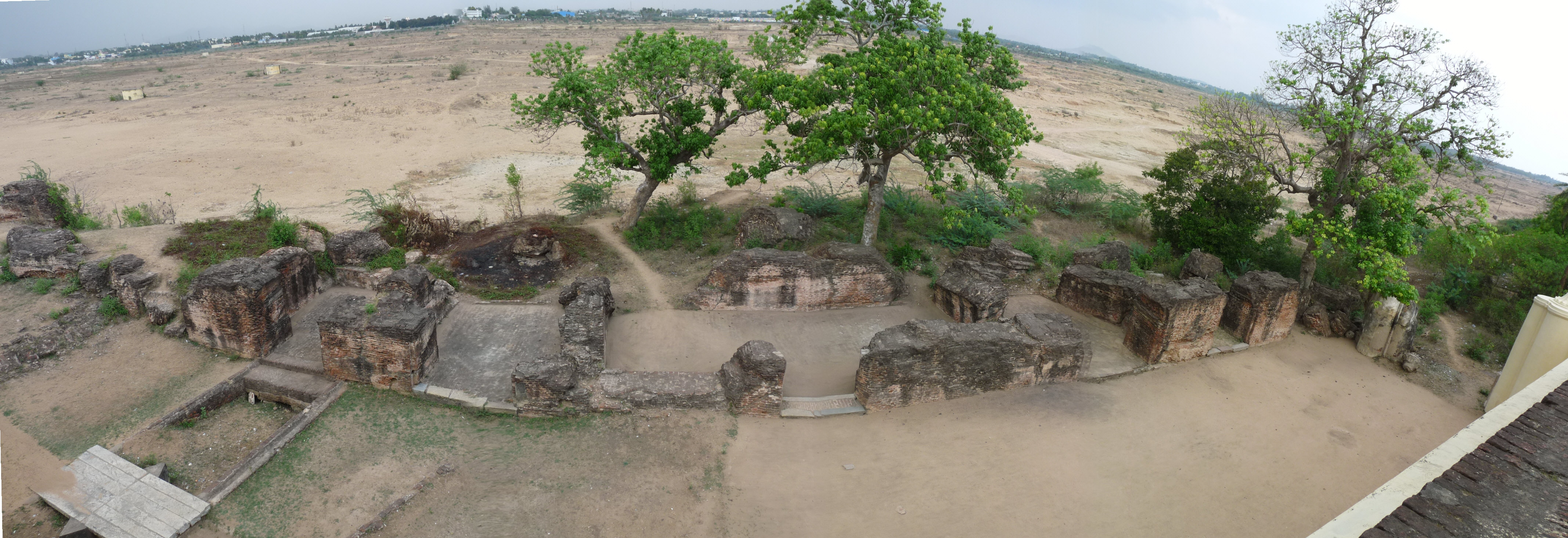 View from the Delhi Gate, over looking the river and the dilapidated fortifications